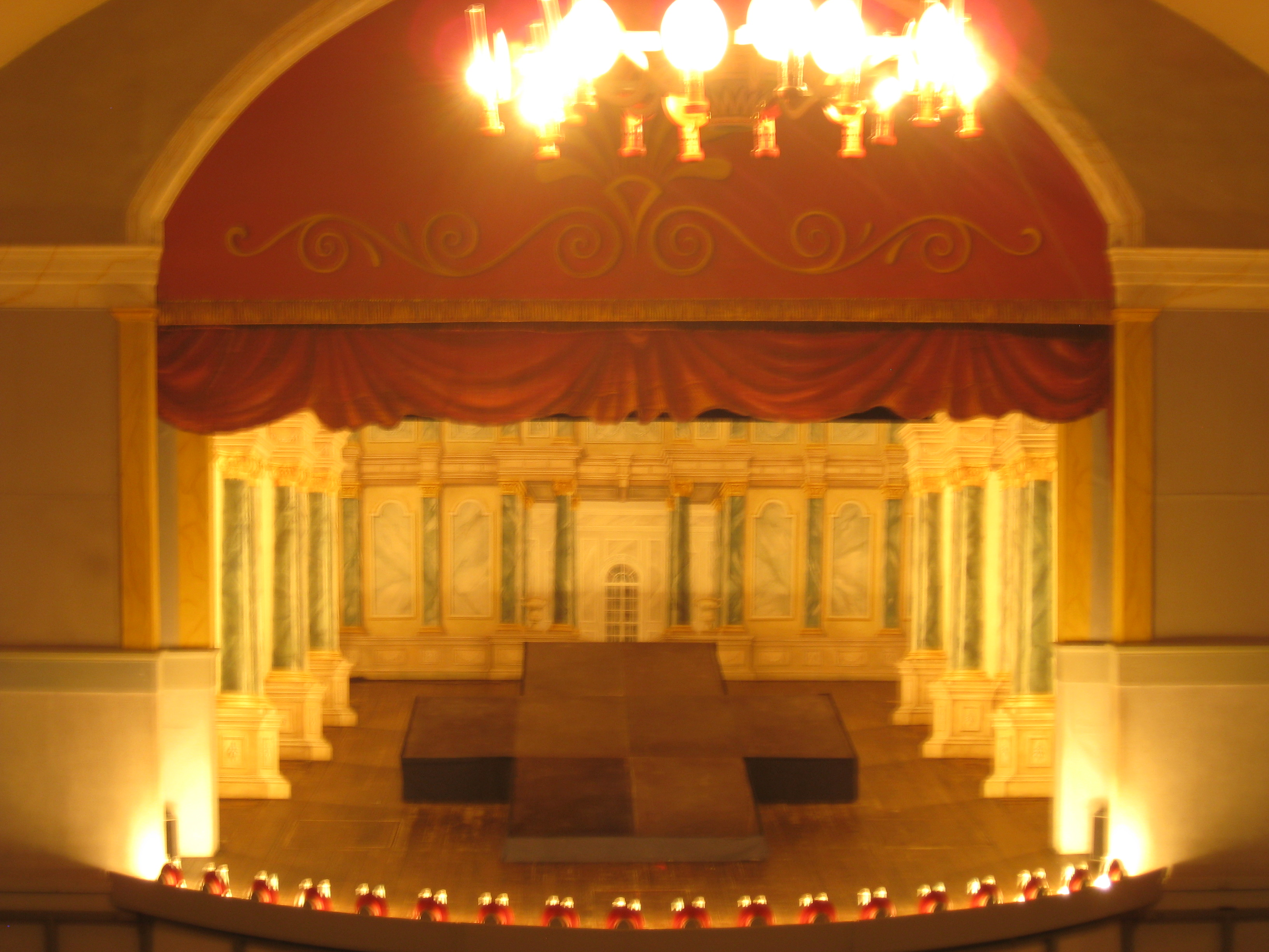 The historical Goethe Theatre Bad Lauchstädt (Germany)